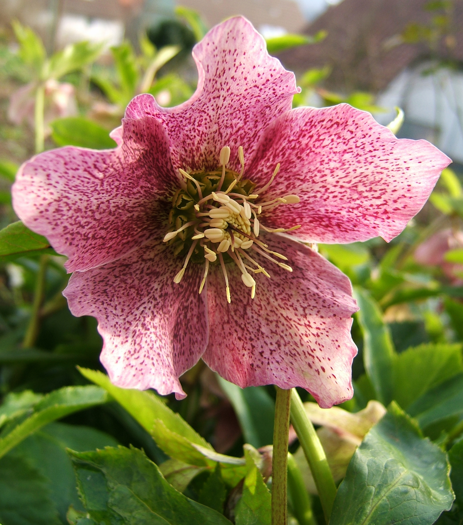 Plants growing in a half shady place at 240 m in Rems Valley, a warm viniculture region in Baden_Württemberg, Germany.